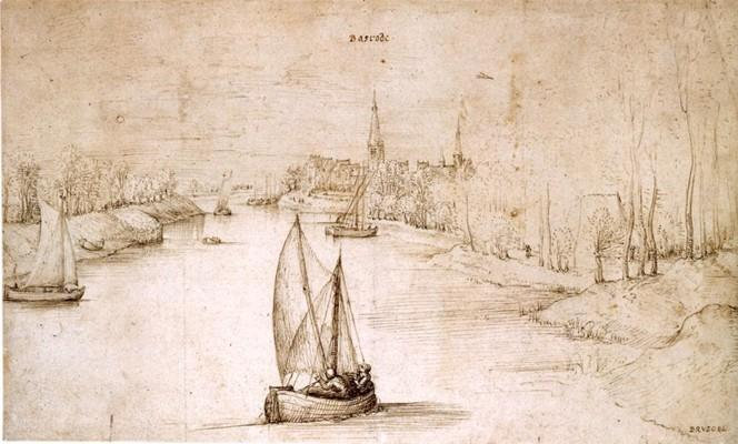 Baasrode in 1556 Een werk van Pieter Breughel de Oude